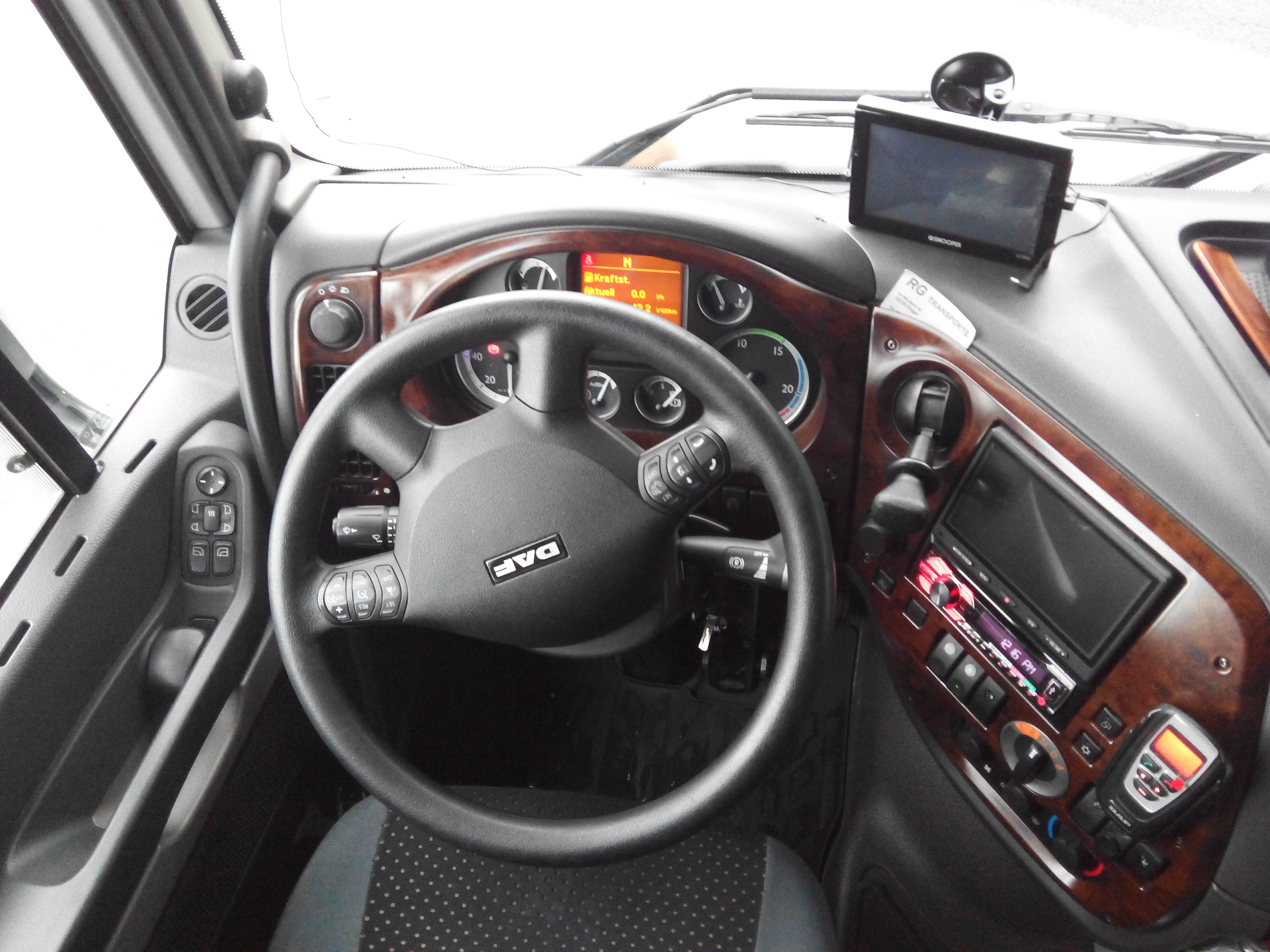 Cockpit of a DAF XF